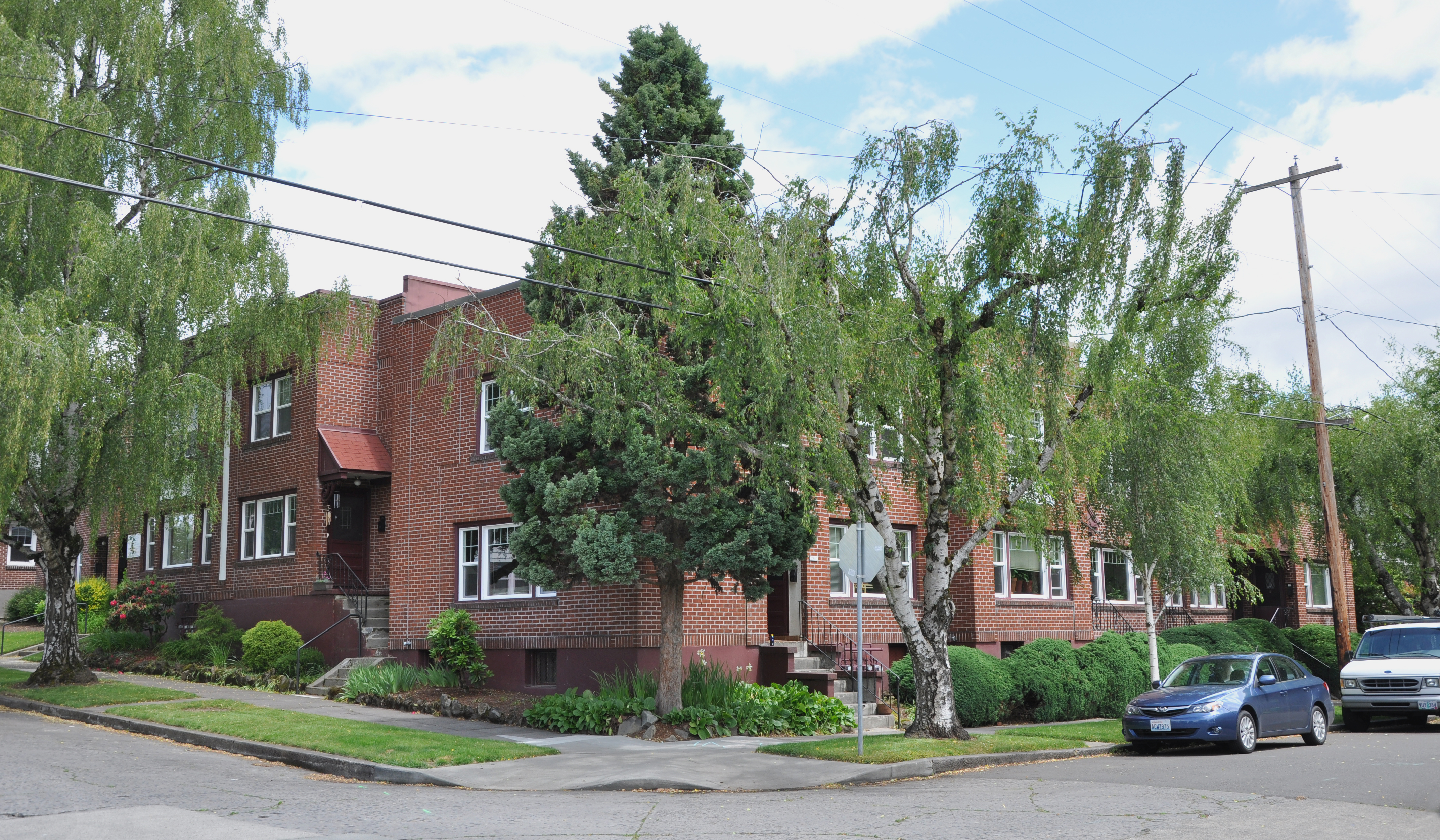 Burrell Heights Apartments in Portland in the U.S. state of Oregon. The structure is listed on the National Register of Historic Places.